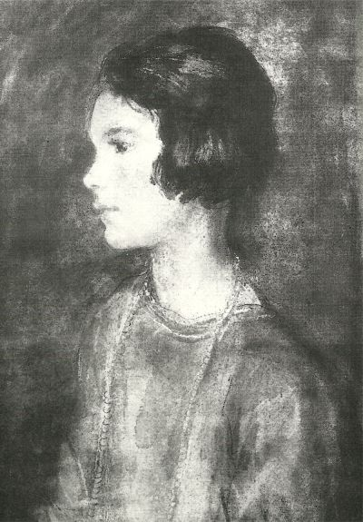 Elizabeth David (1913–1992) as a girl (Elizabeth Gwynne) in 1923. Scanned from Cooper, Artemis, (2000). Writing at the Kitchen Table – The Authorized Biography of Elizabeth David. London: Michael Joseph. ISBN 0718142241.